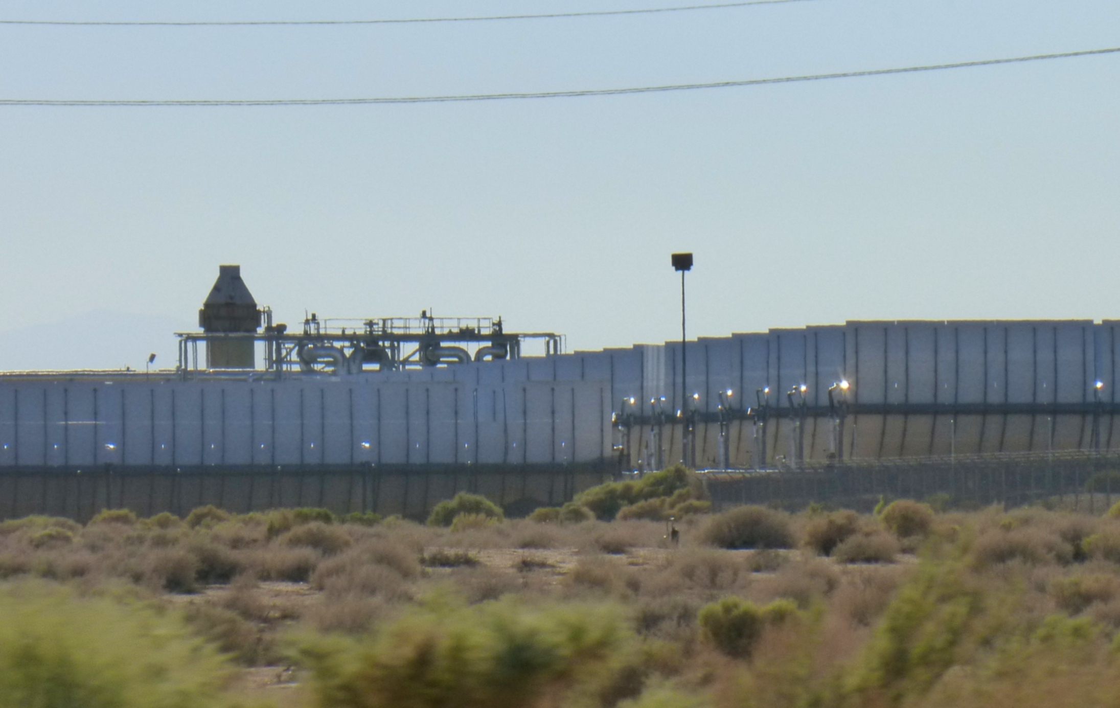 Solar Energy Generating Systems at Kramer Junction. Photo taken from state route 395 facing toward the west in the late afternoon. The reflectors reflects and focuses the sunlight at the absorber tubes partially seen in the picture as bright white dots.